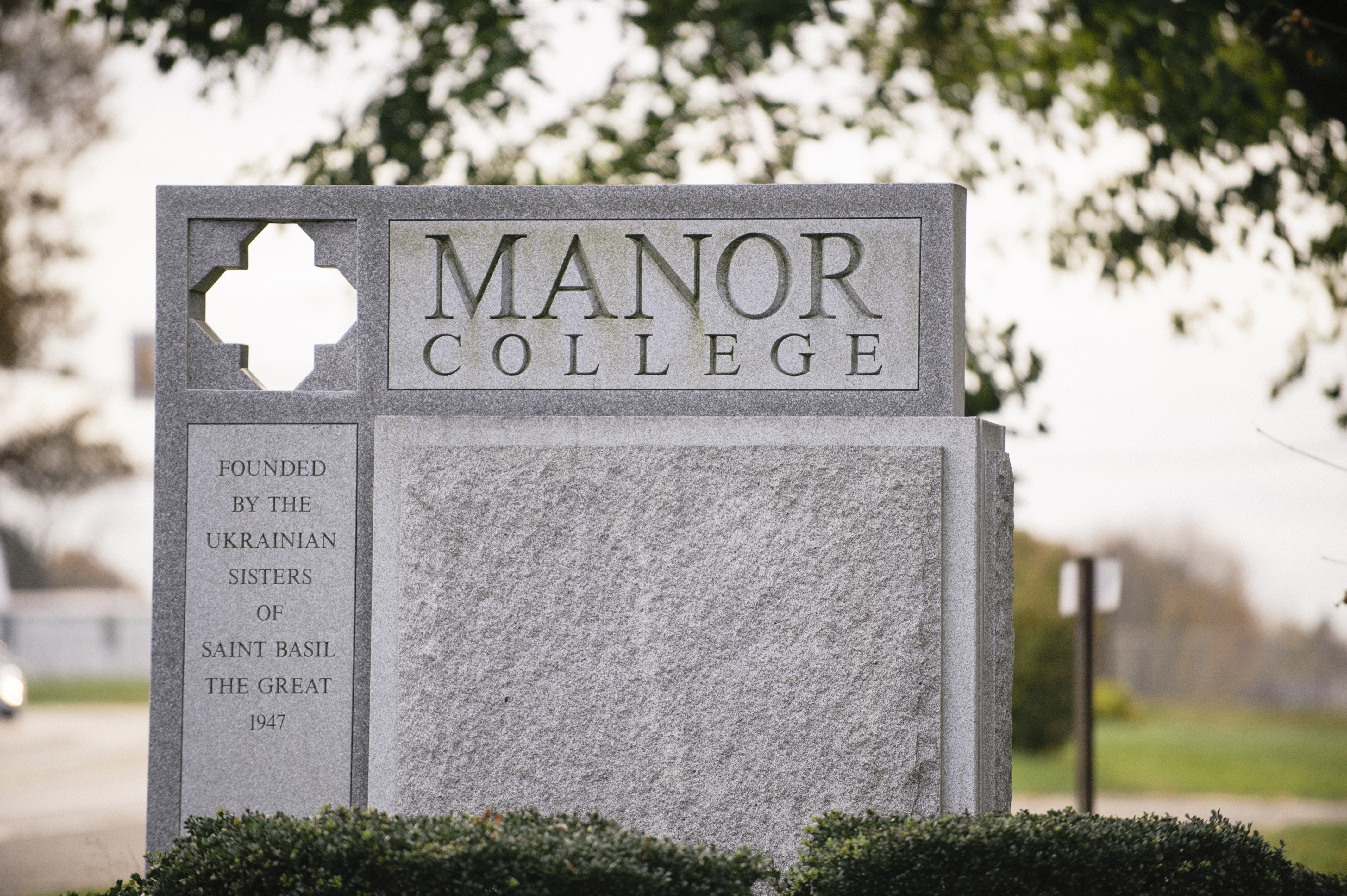 Manor College's entrance